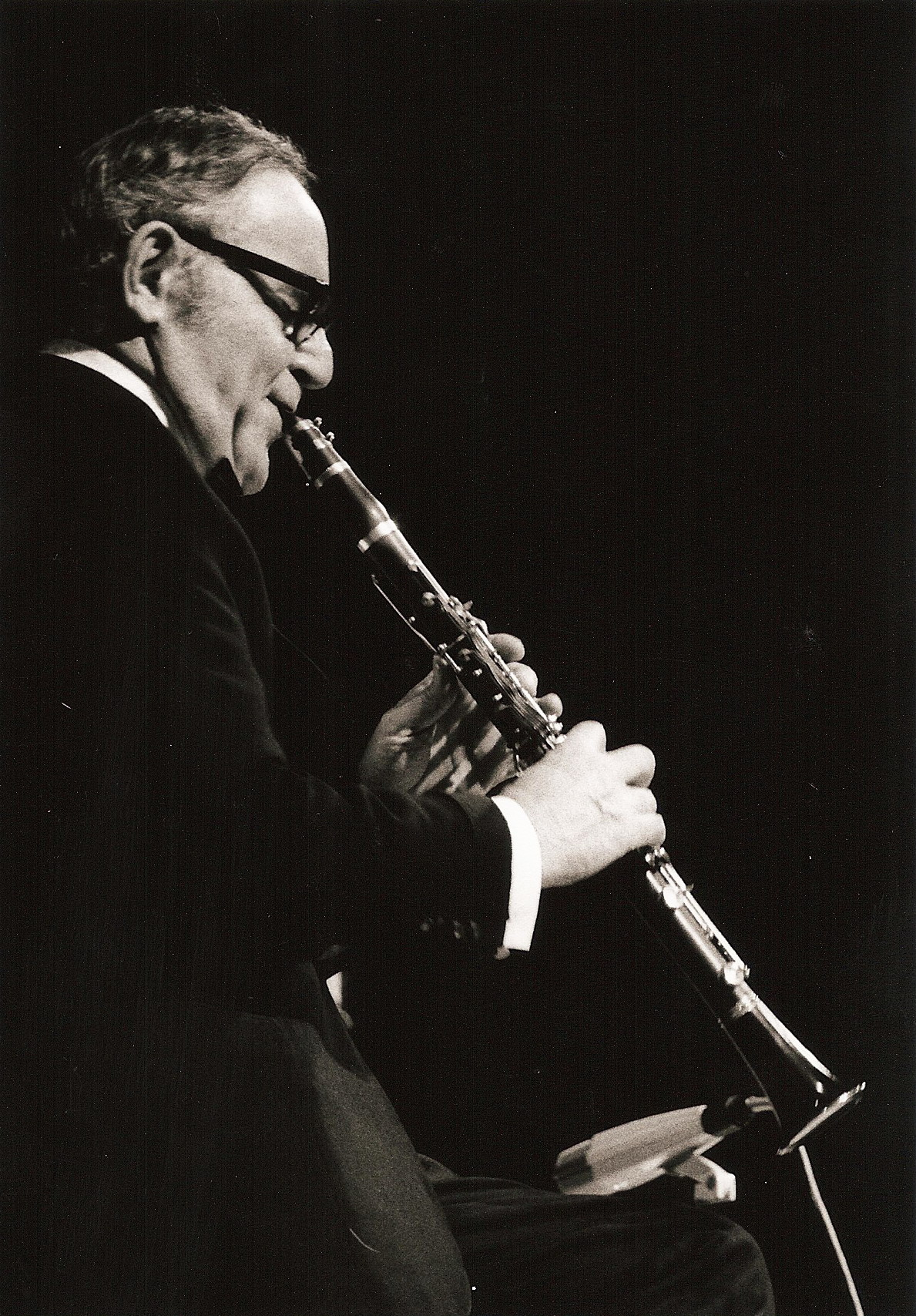 Benny Goodman in concert 1971